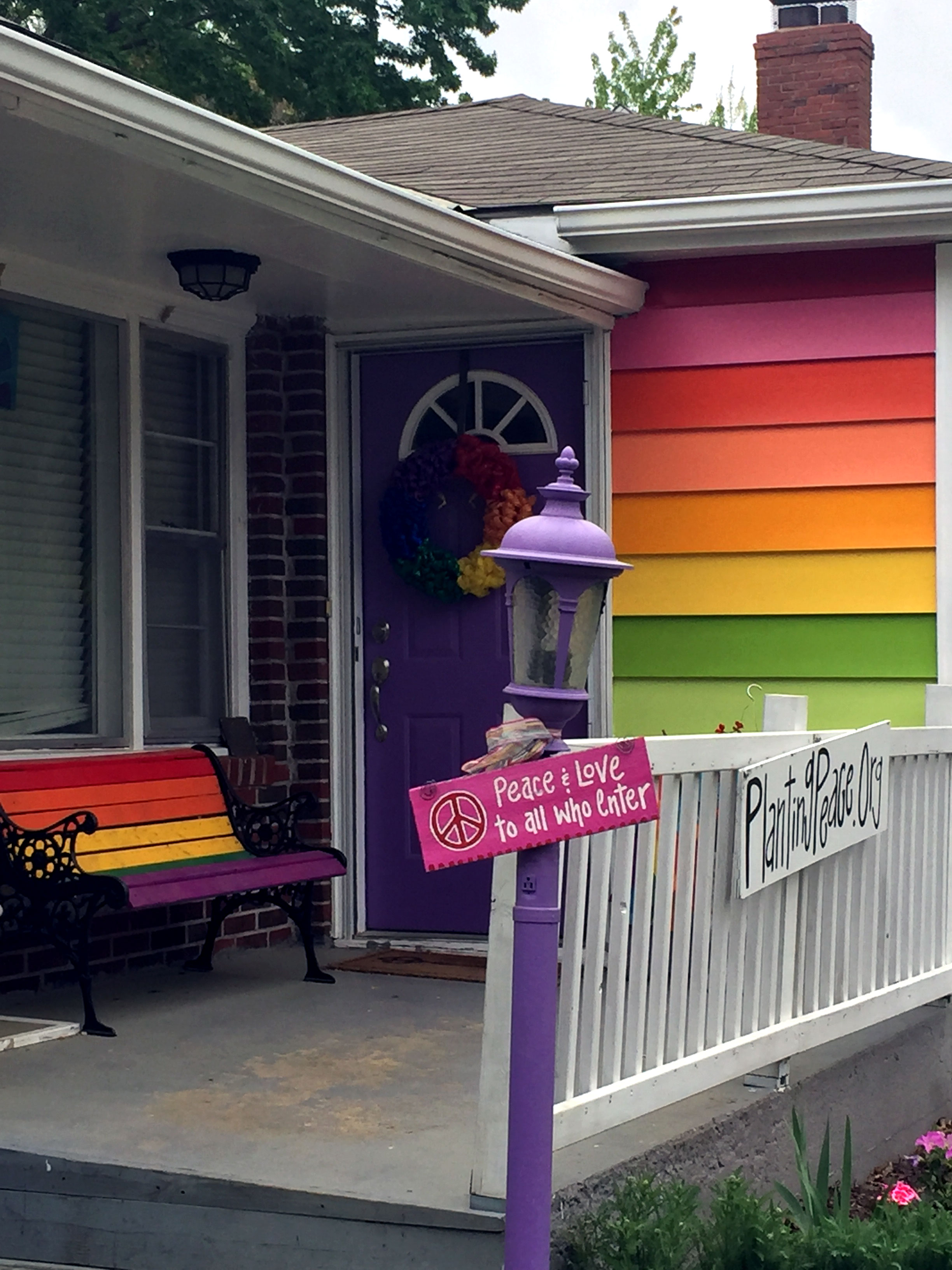 Equality House. Founded by Planting Peace nonprofit humanitarian organization. Topeka, KS. April 2016. It is across the street from Westboro Baptist Church.